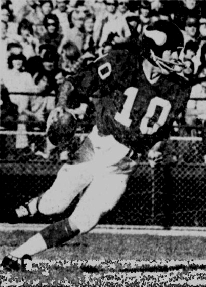 Former Minnesota Vikings QB Fran Tarkenton